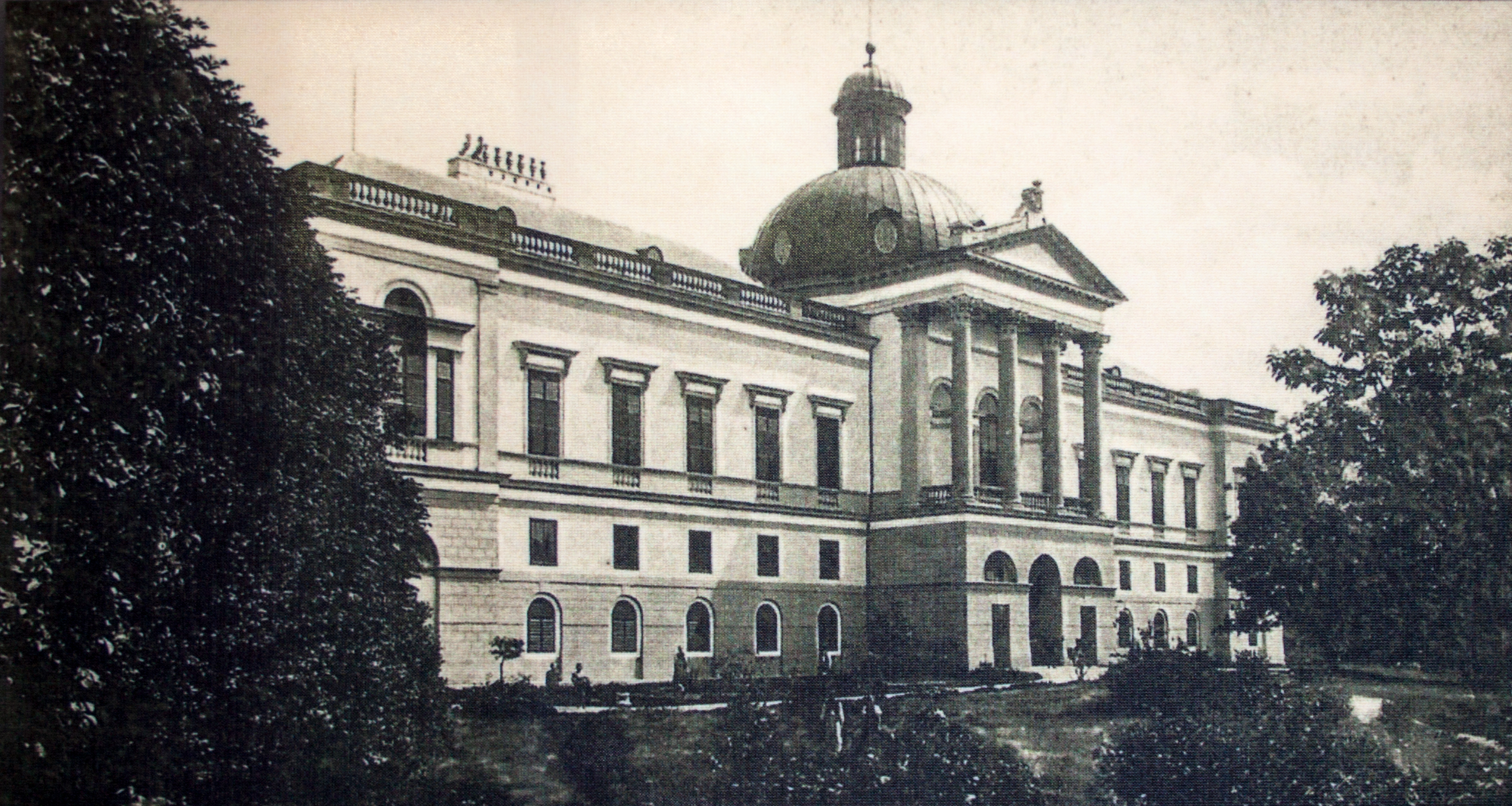 Postcard of the mansion of the Archduke in Kistapolcsány